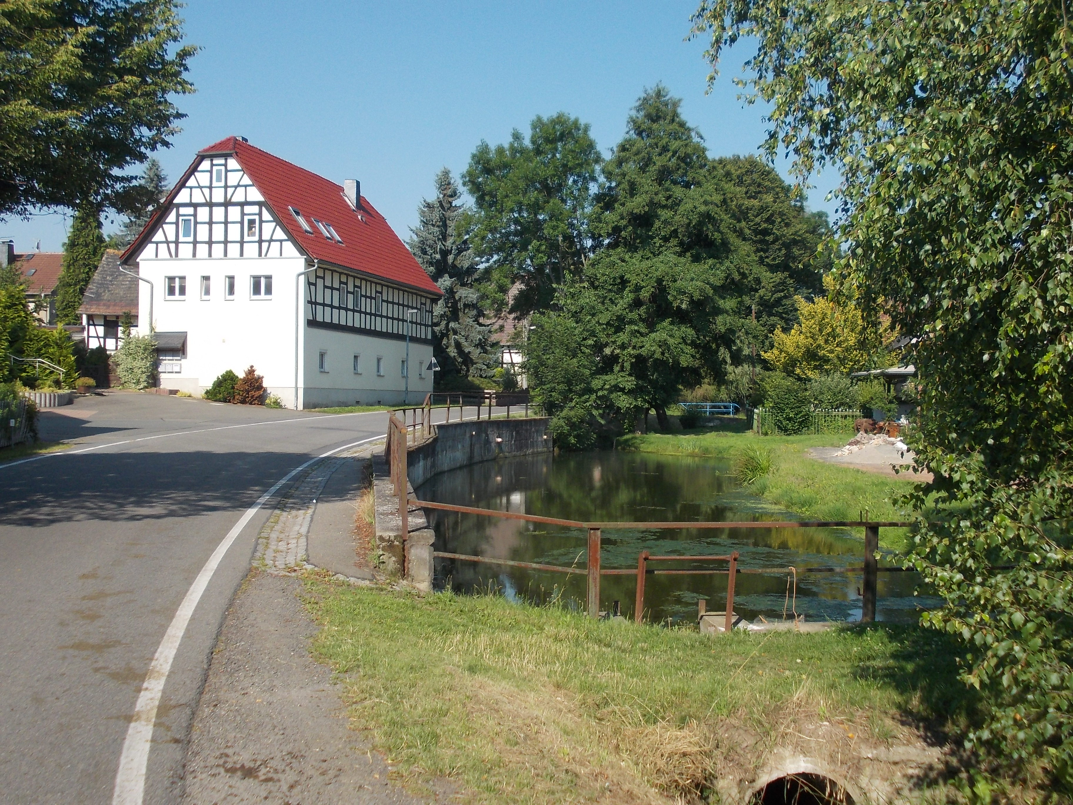 Pond in Gösau (Crimmitschau, Zwickau district, Saxony)